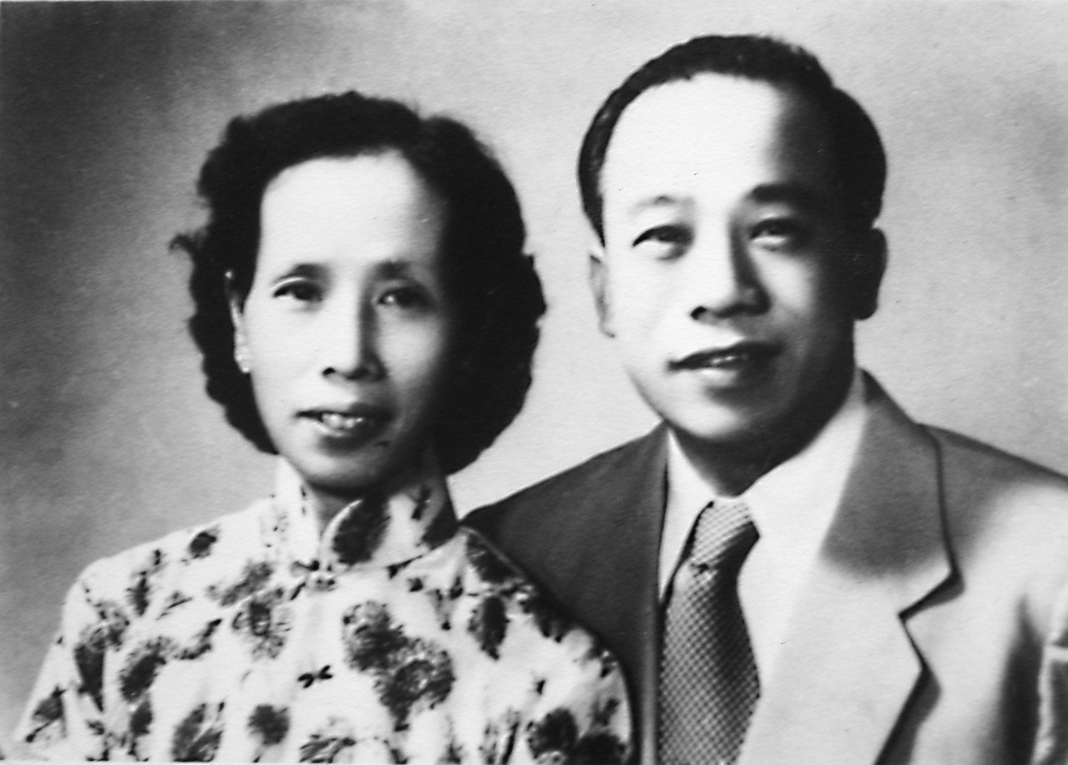 On Cheong Founder Ho Yew Ping and Wife Leung Chew Fun